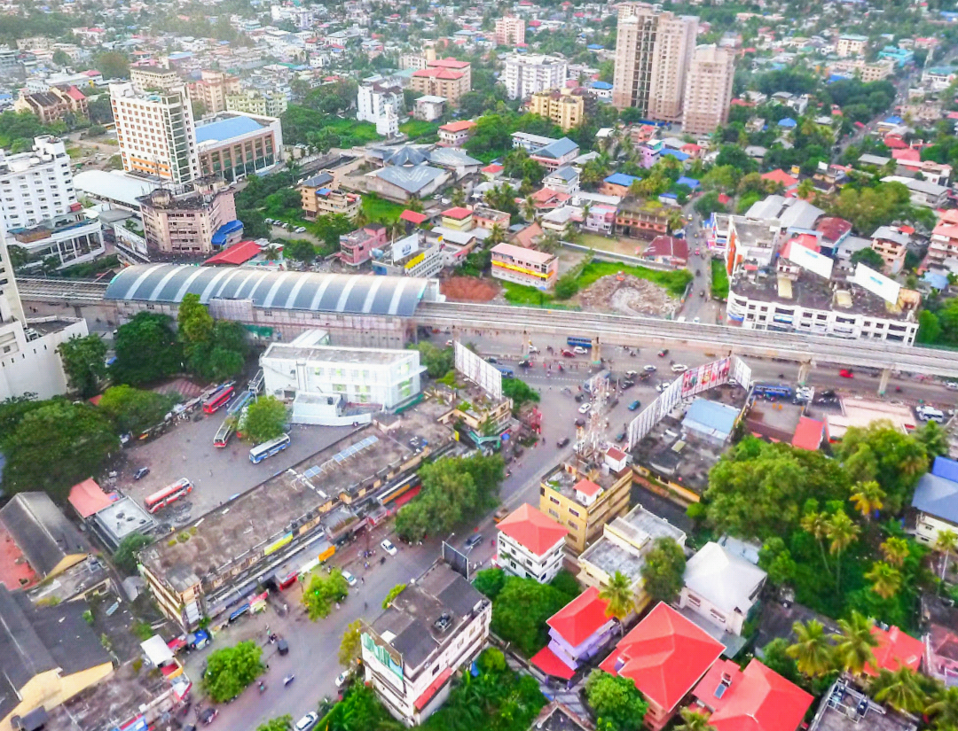 Aerial view of Kaloor Junction